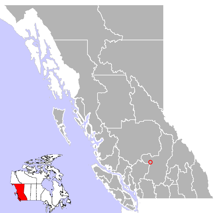 Location of Clearwater